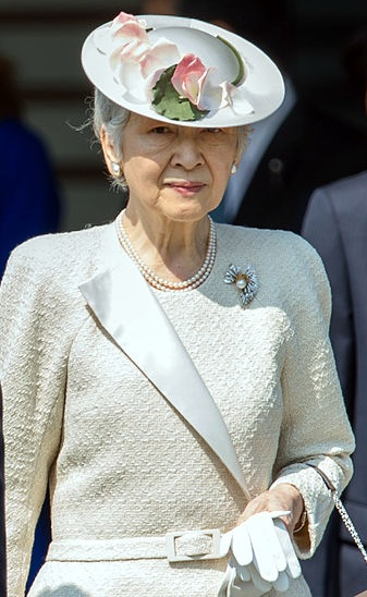 Barack Obama, President, met Emperor Akihito and Empress Michiko with Crown Prince Naruhito and Shinzō Abe, Prime Minister, at the Tokyo Imperial Palace in Chiyoda Ward, Tōkyō Metropolis on April 24, 2014.